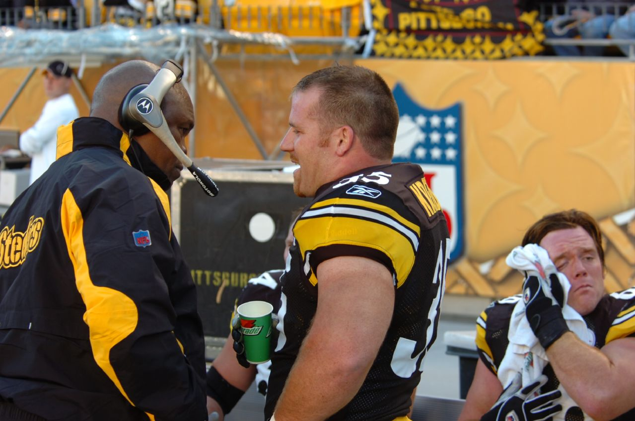 Dan Kreider of the Pittsburgh Steelers talks to a coach on the sidelines. Alan Faneca can be seen on the right.